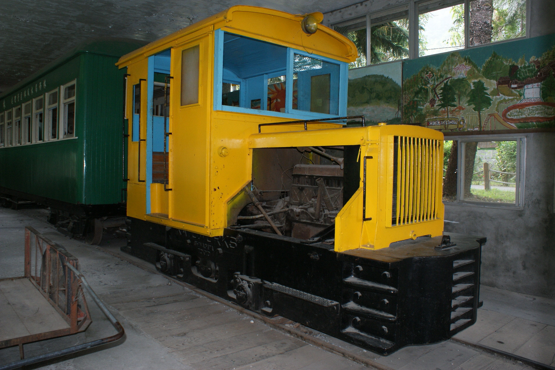 Diesel locomotive by Kato Works of Japan displayed at Lintianshan Forest Culture Park in Hualian, Taiwan